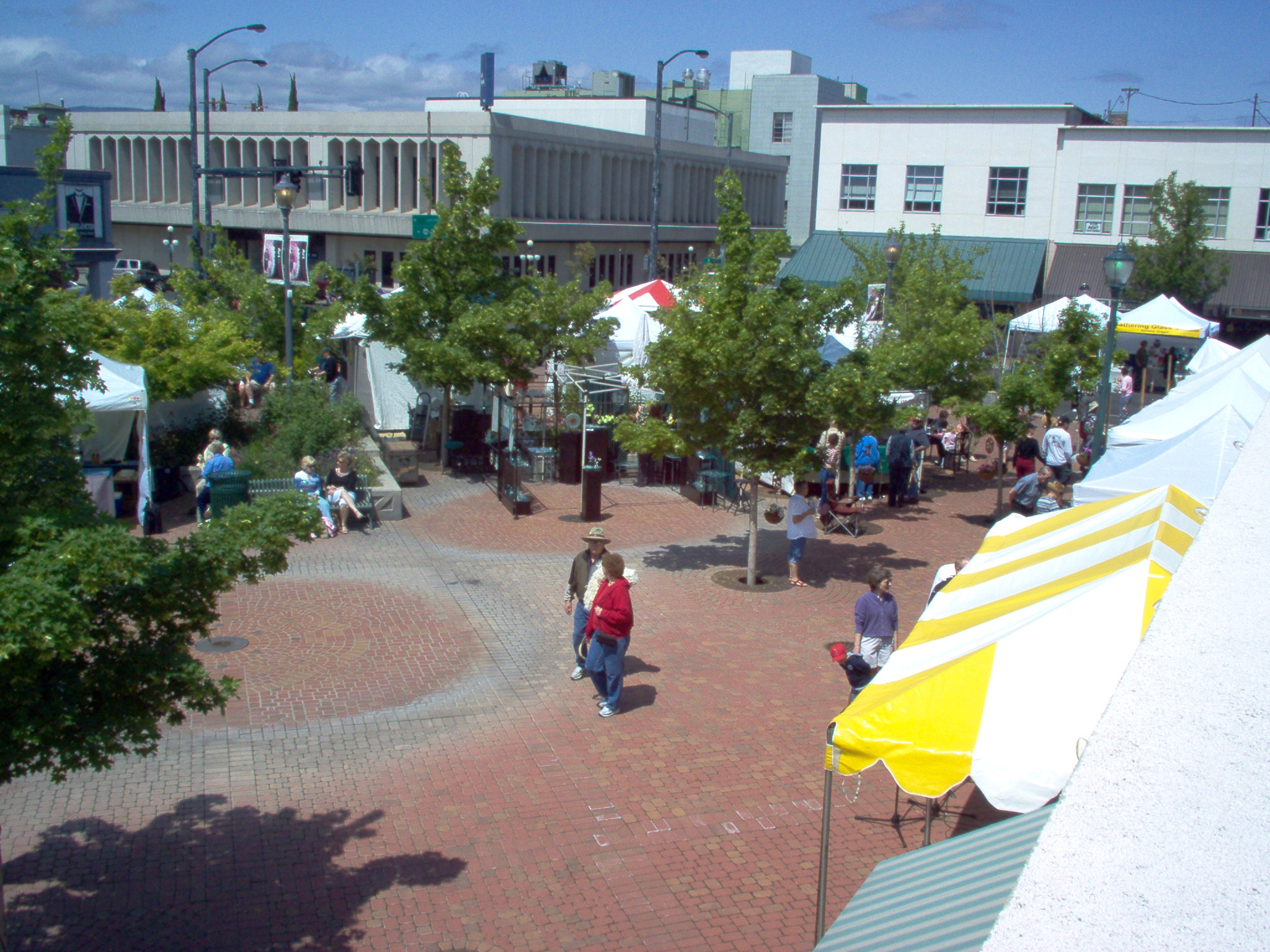 I took this picture from the rooftop of a restaurant (the owners were very kind for letting me up there). It is Vogel Plaza (in Medford) during the Art in Bloom festival, May 12th 2007.